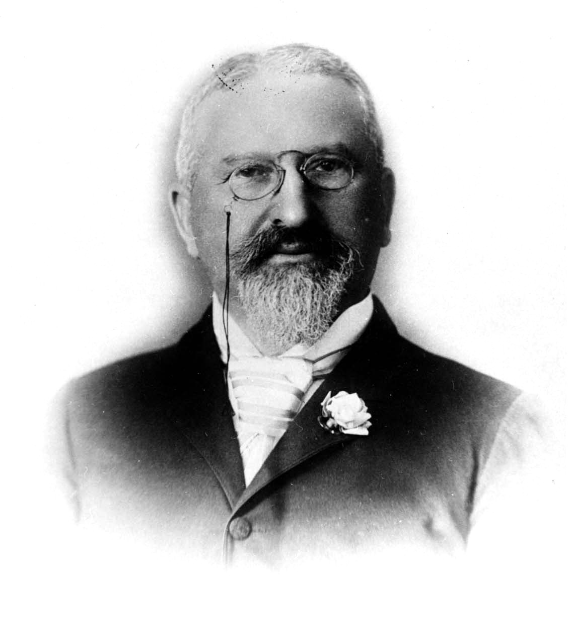 David Oppenheimer, mayor of Vancouver from 1888 to 1891